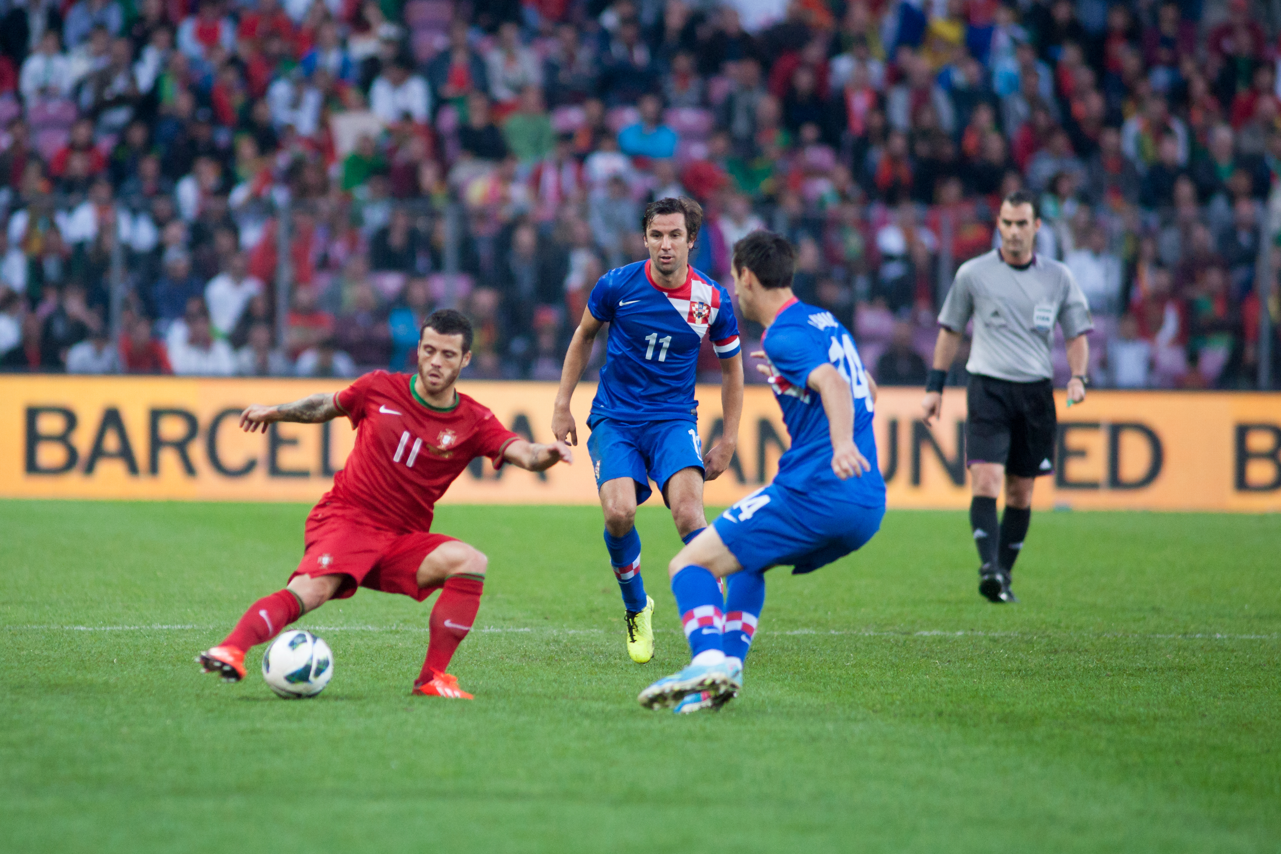 Croatia vs. Portugal, 10th June 2013